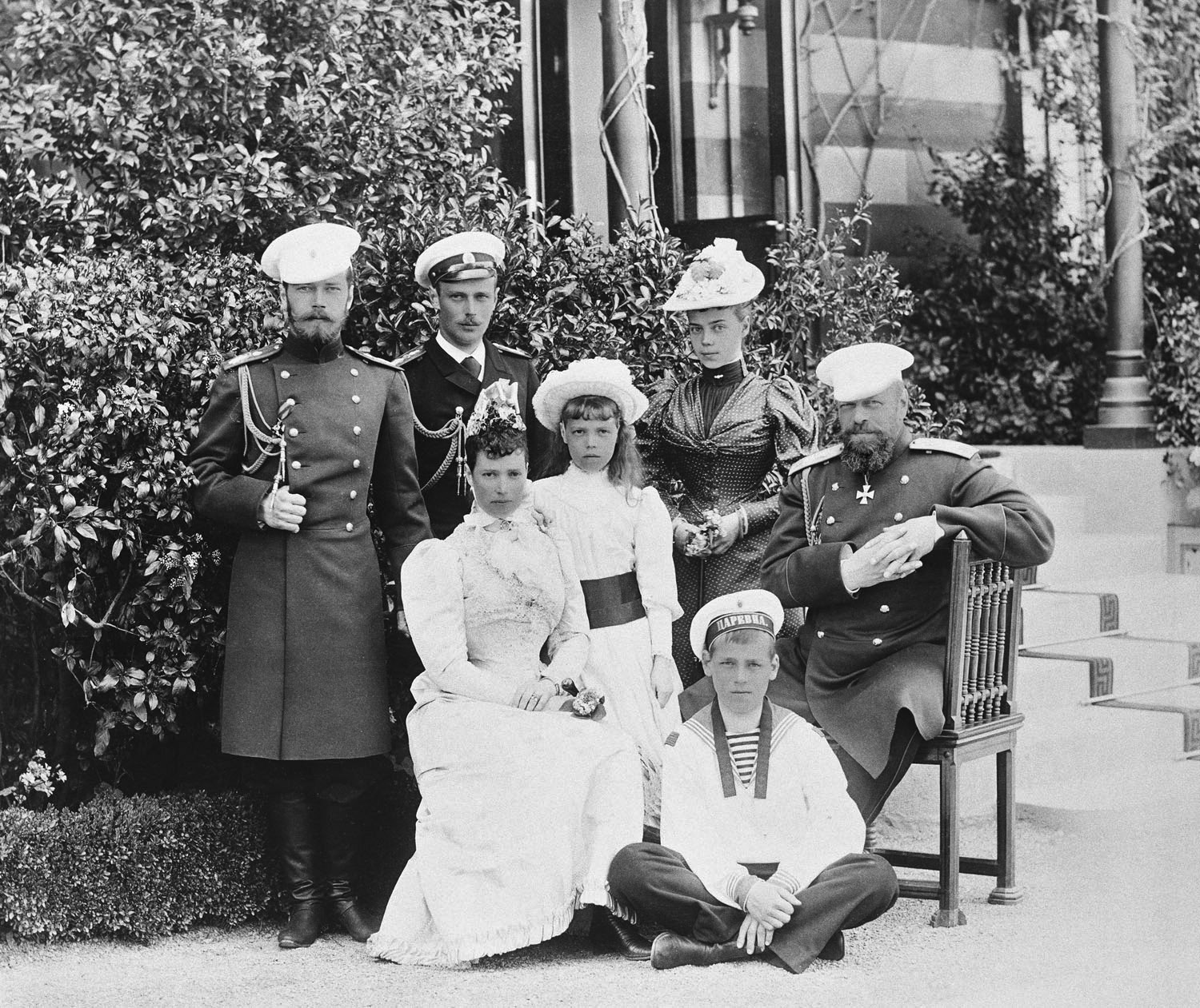 Family of Alexander III. of Russia, Small Palace of Livadia.